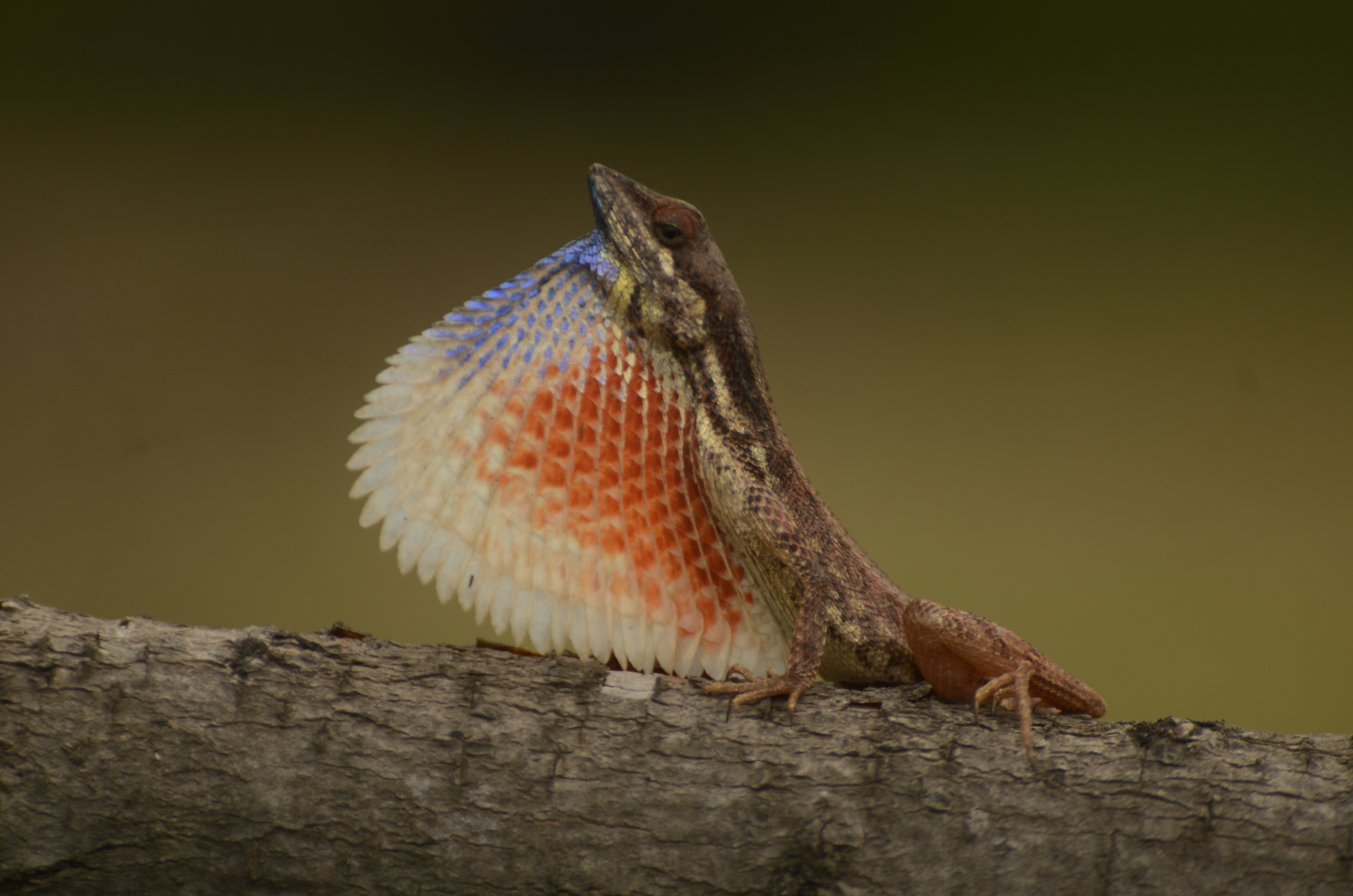 Fan-throated lizard (Sitana ponticeriana) from Teri sand dune complex